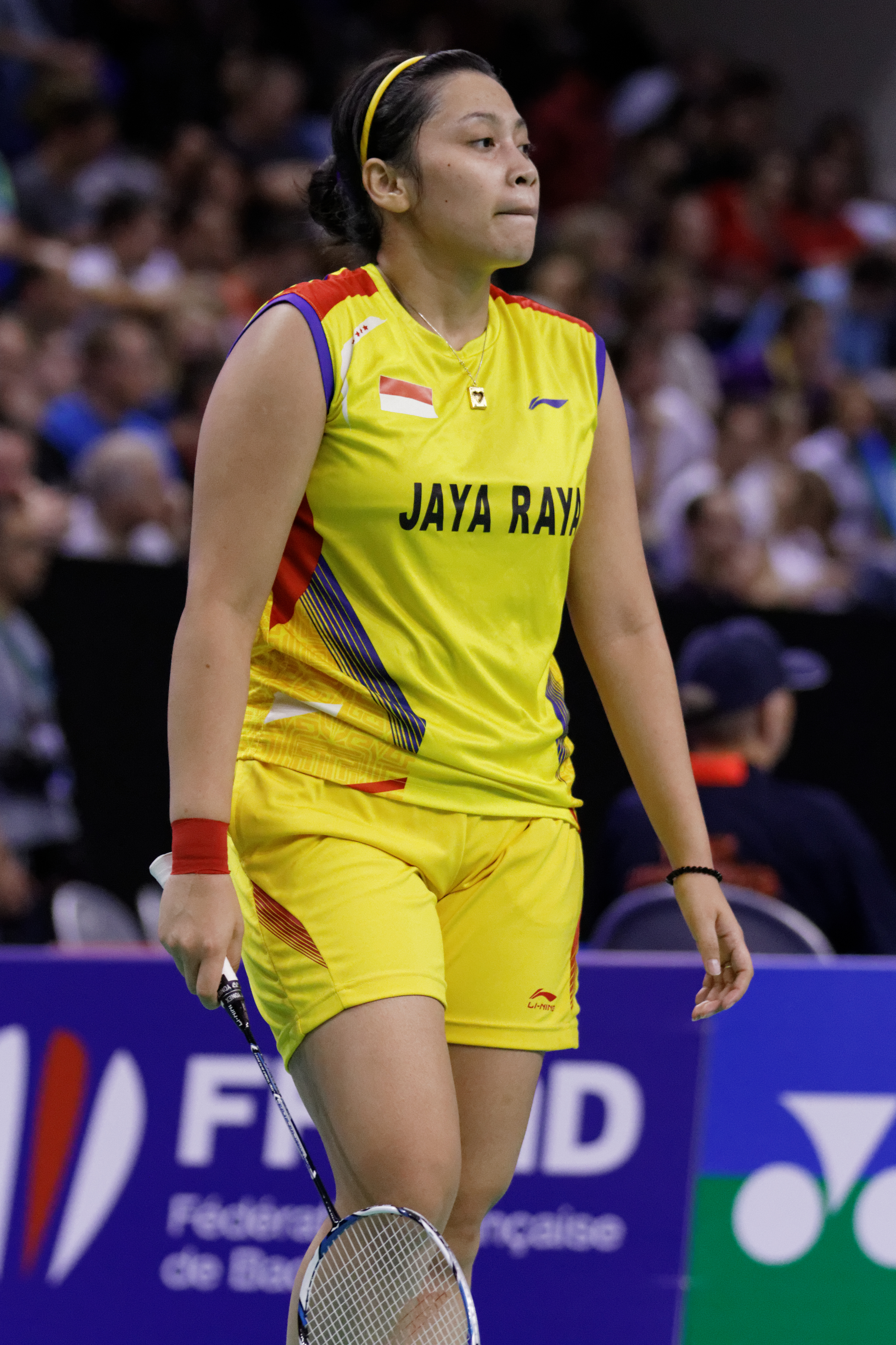 2013 French open. Mixed's doubles eightfinal. Markis Kido and Pia Zebadiah Bernadeth vs Chris Adcock and Gabrielle White.